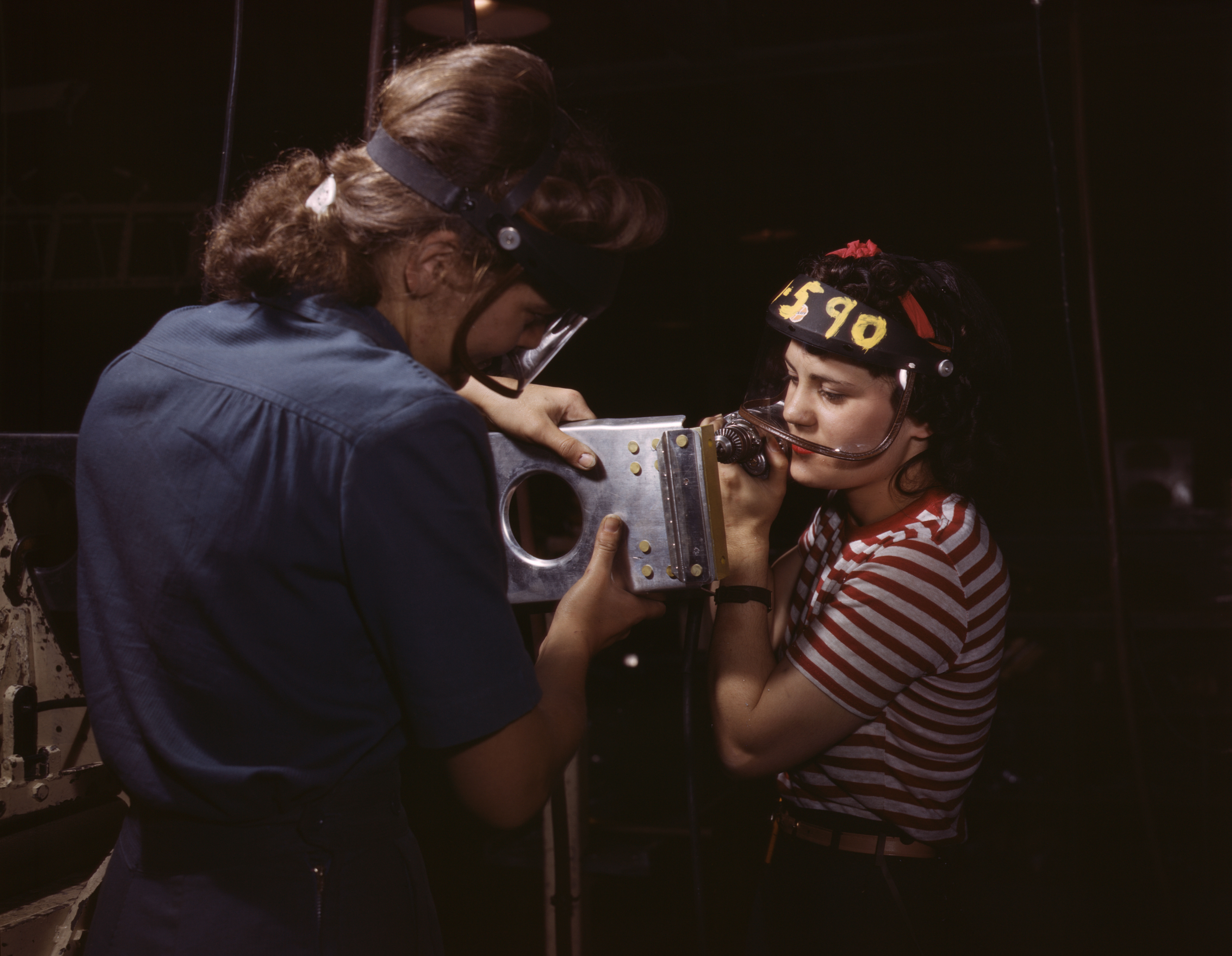 Two women employees of North American Aviation, Incorporated, assembling a section of a wing for a P-51 fighter plane.